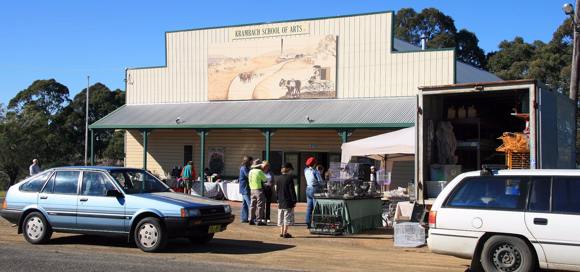 Krambach Hall, and community markets which take place on third Sunday of every month.